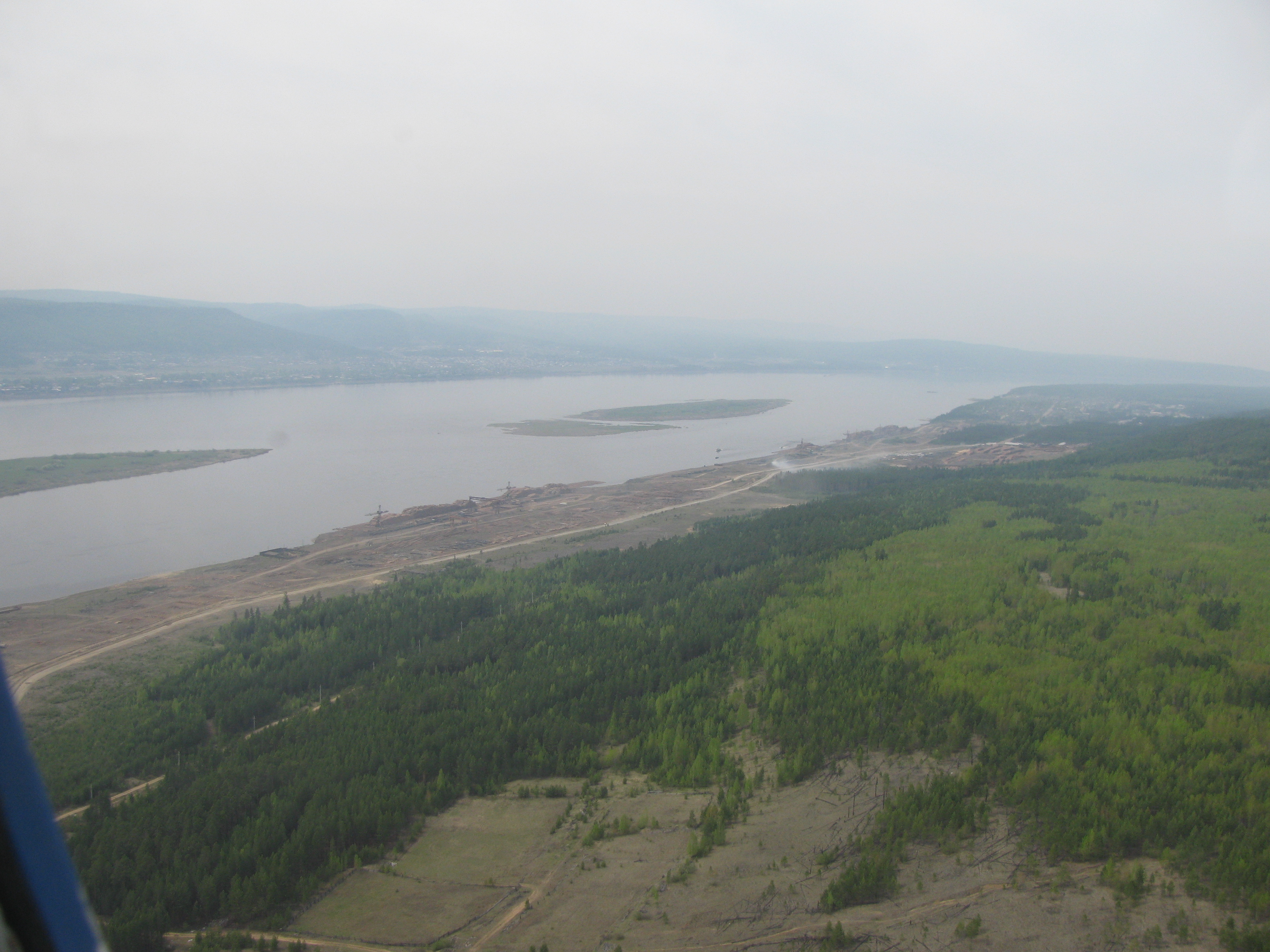 Angara River near Boguchany settlement, view from a helicopter (Boguchansky District, Krasnoyarsk Krai, Russia)